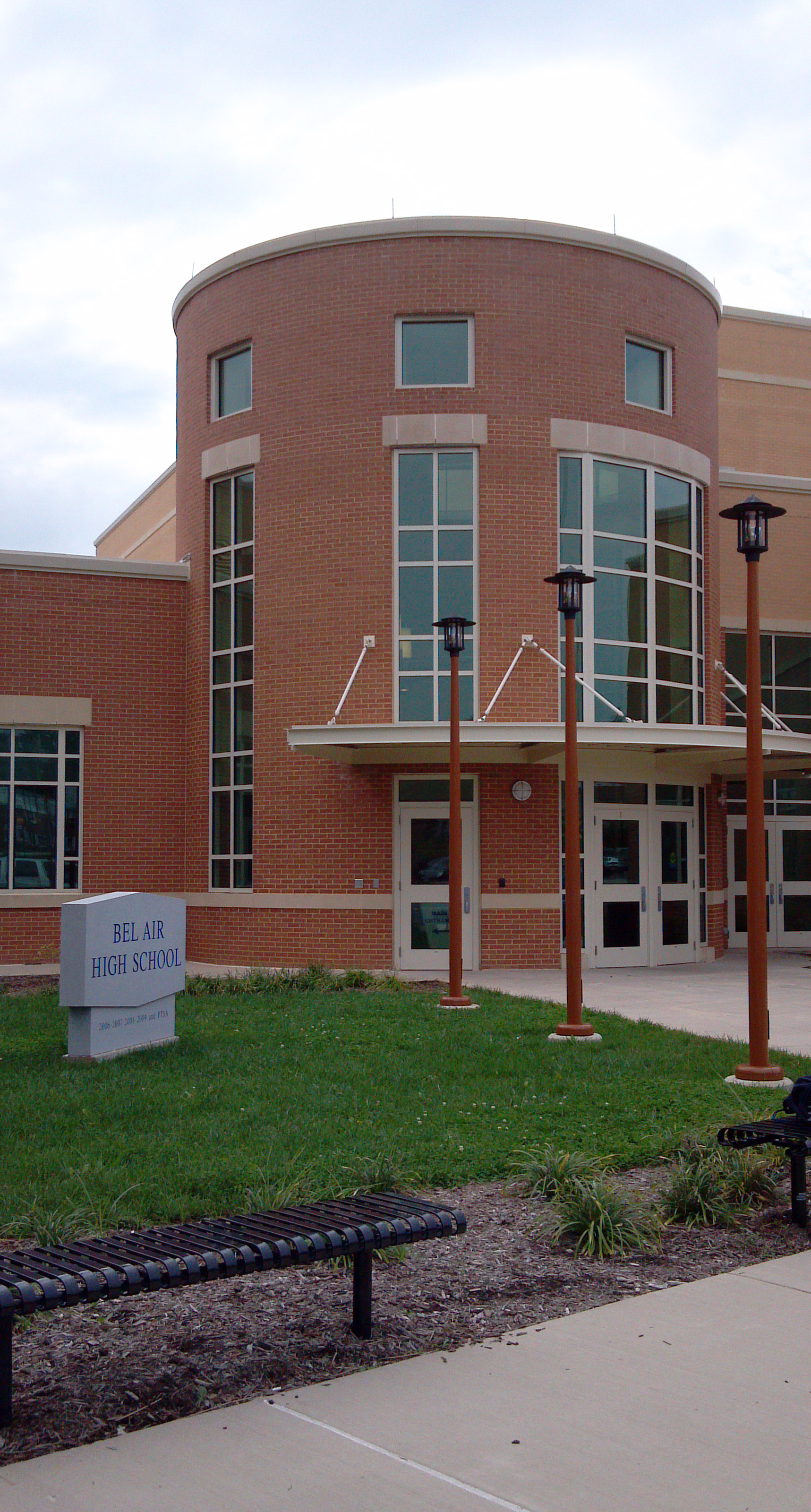 Photo of Bel Air High School's main entrance at 100 Heighe St, Bel Air, Maryland.